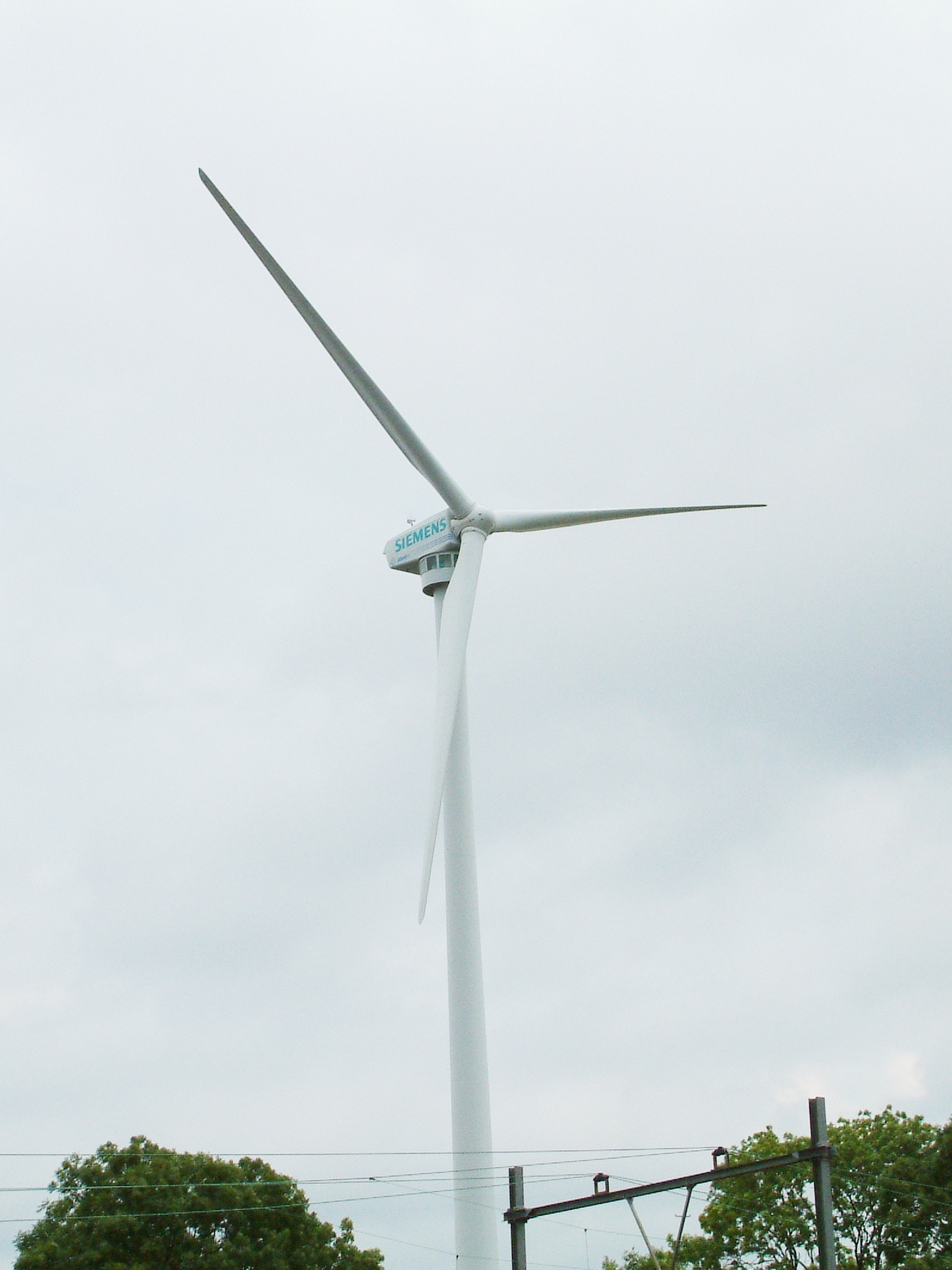 Windmill Siemens Zoetermeer